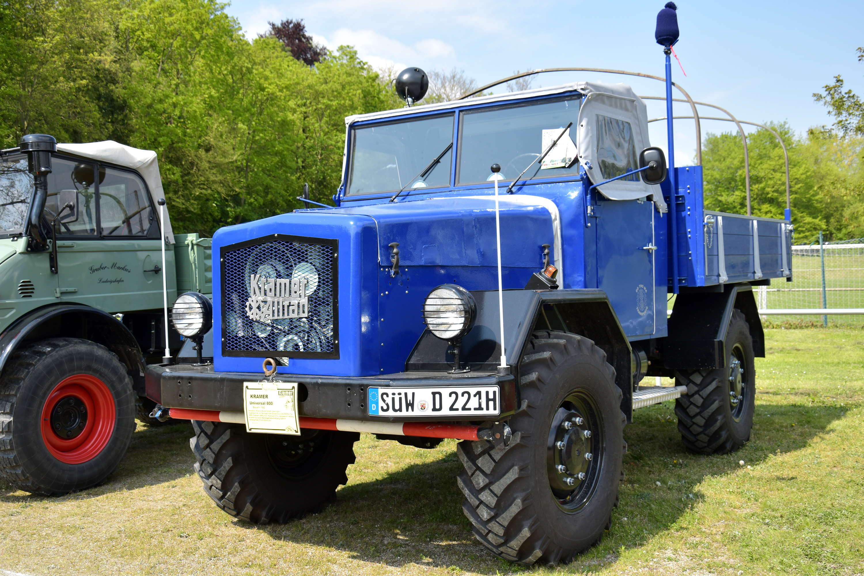 Kramer Universal 800